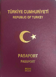 Biometric passport of Republic of Turkey